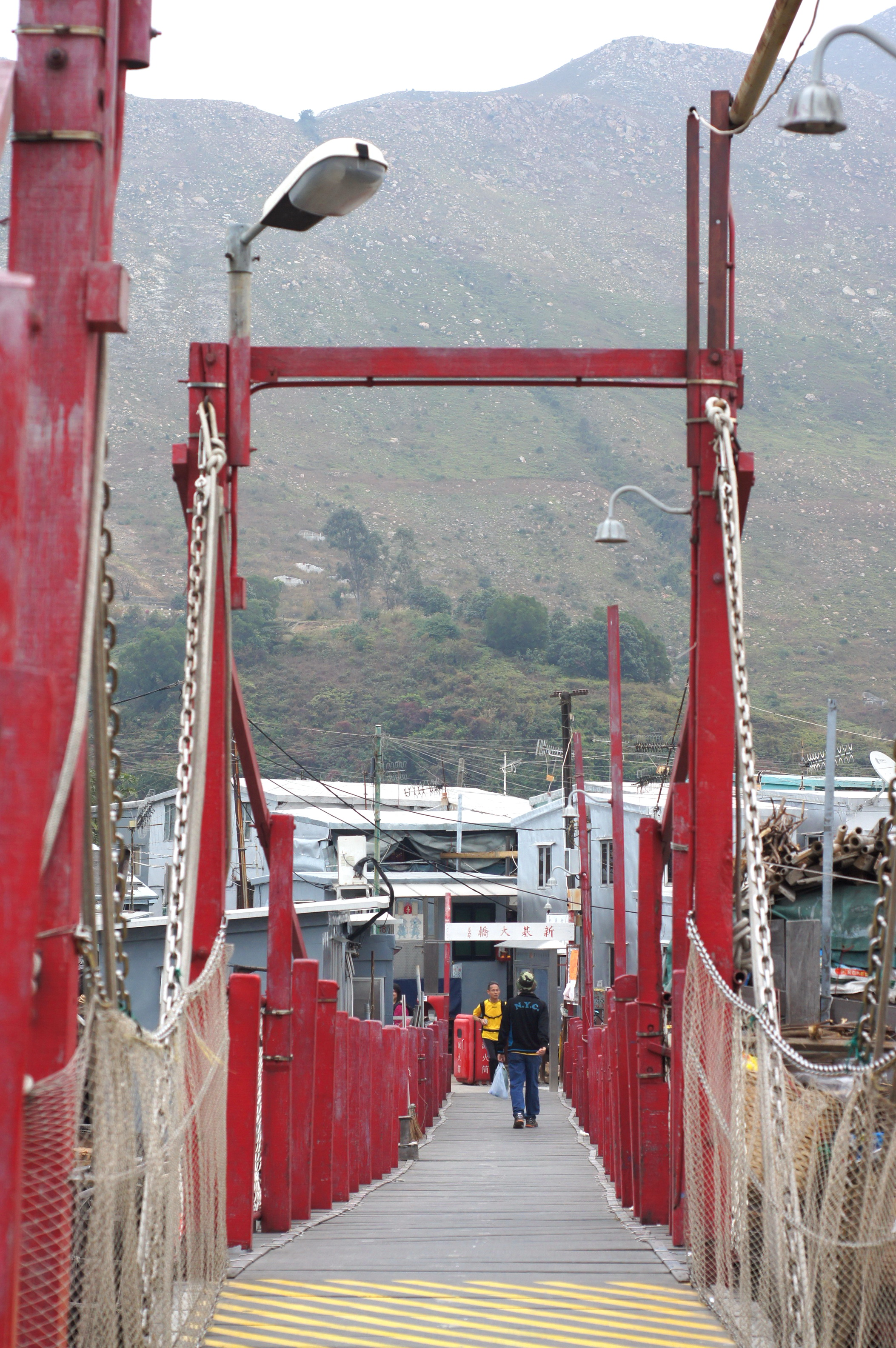 Sun Ki Bridge, Tai O, Lantau Island, Hong Kong.